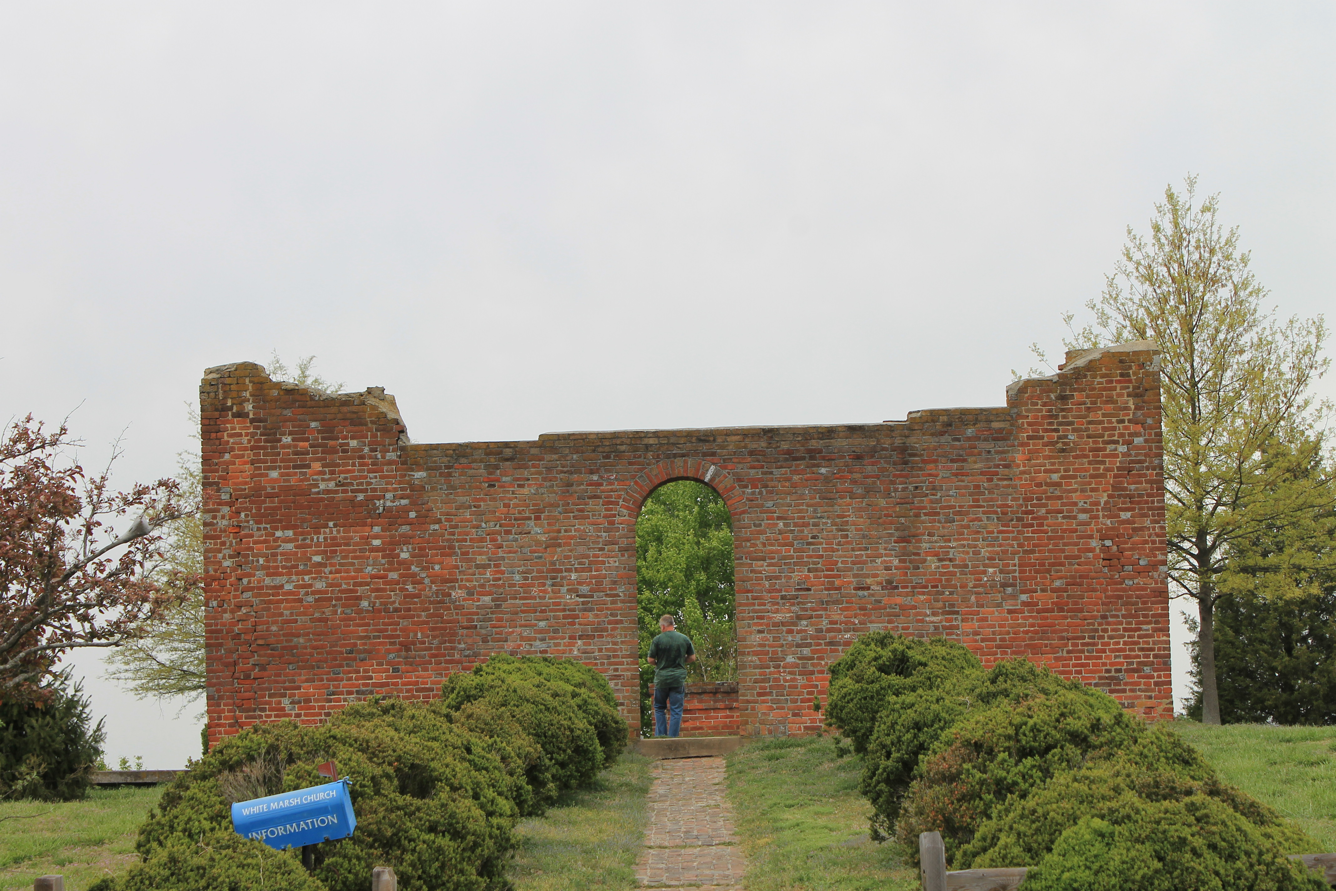 The front of Old White March Church in Talbot County, Maryland.